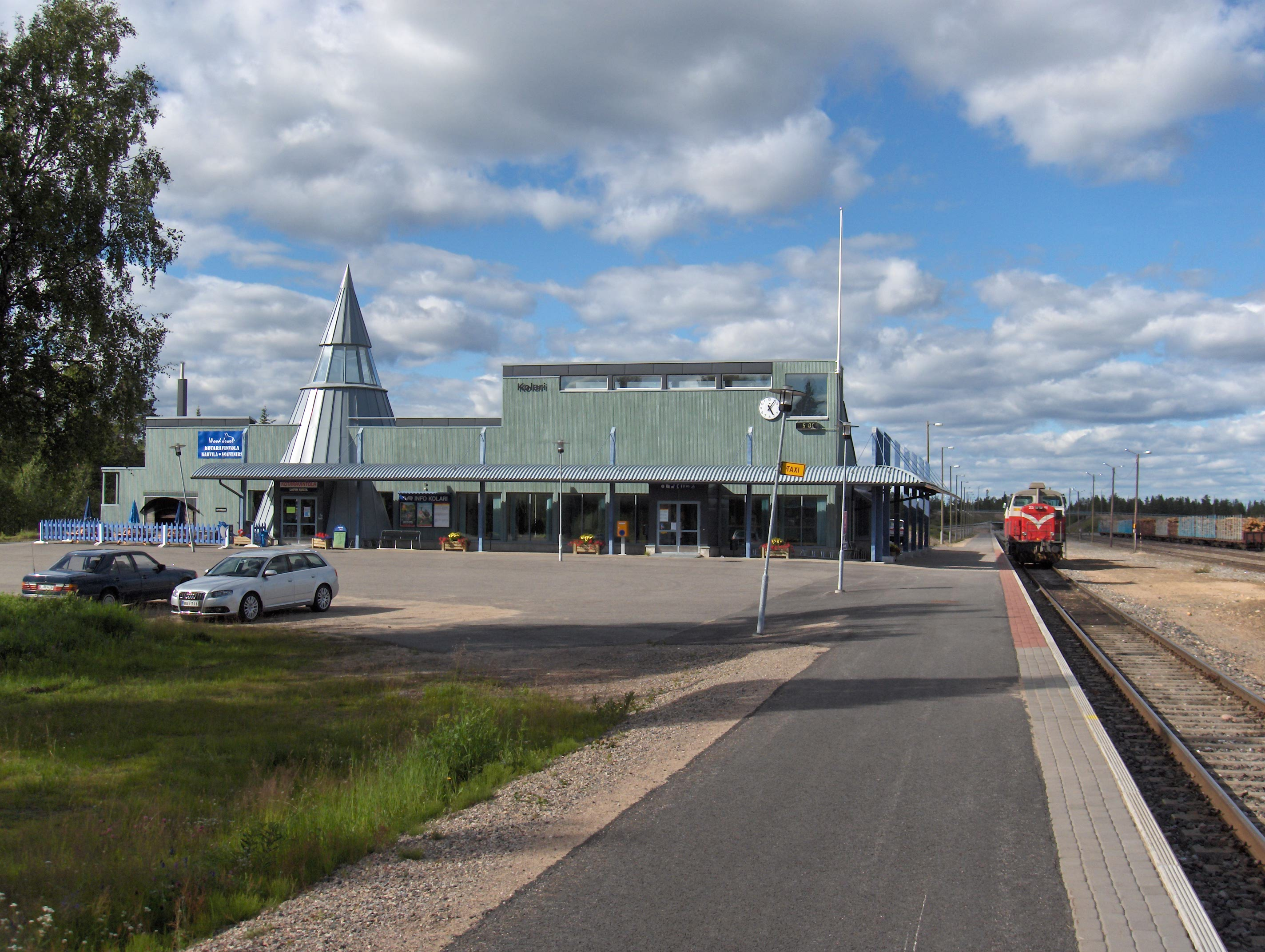 Kolari Railway Station in Kolari, Lapland Province, Finland